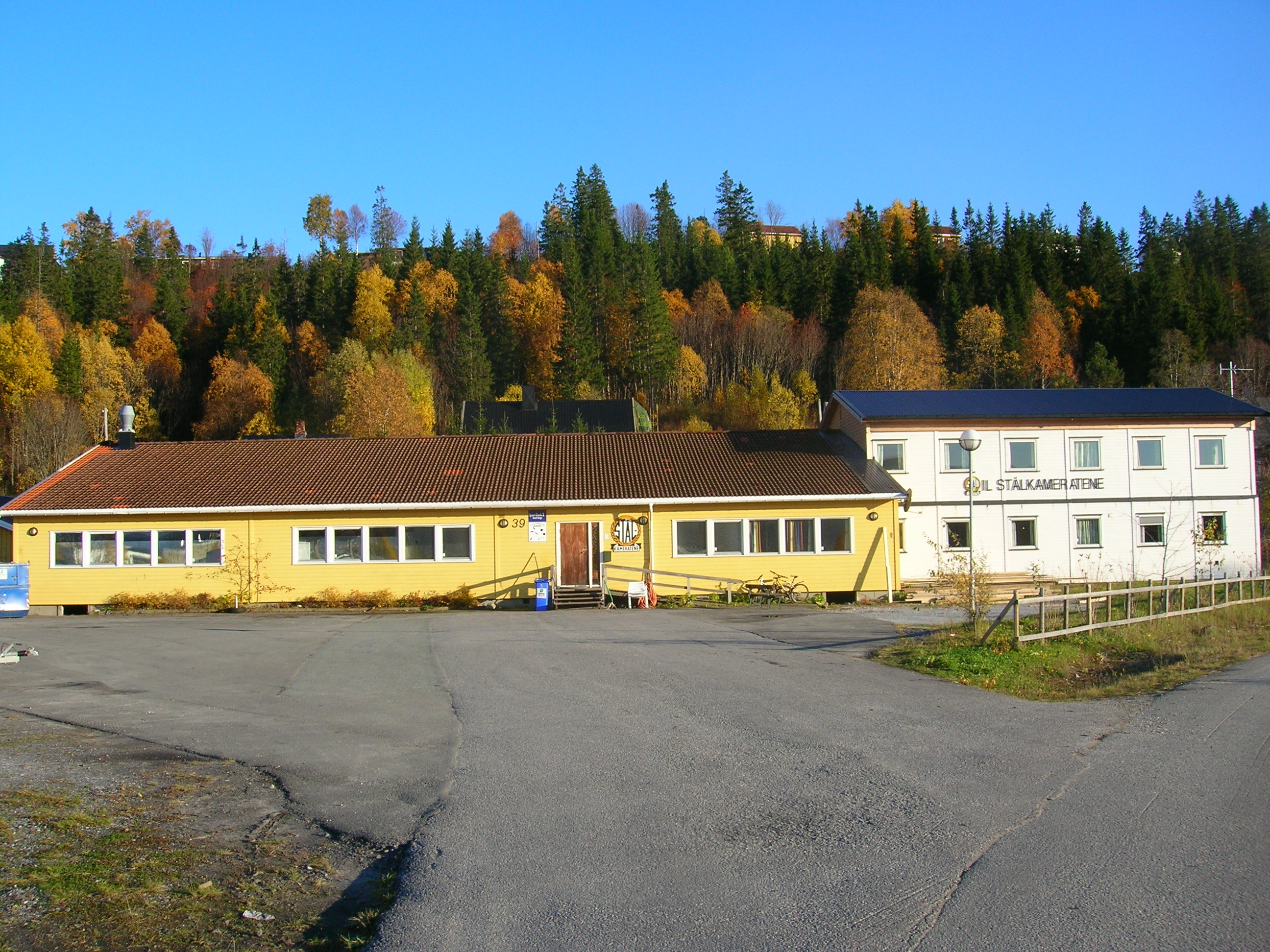 The administration building of IL Stålkameratene in Vika, Mo i Rana. Rana municipality, county of Nordland, Norway. Photo 5 October, 2007 with a Nikon Coolpix 5600 5,1 Megapixel camera.